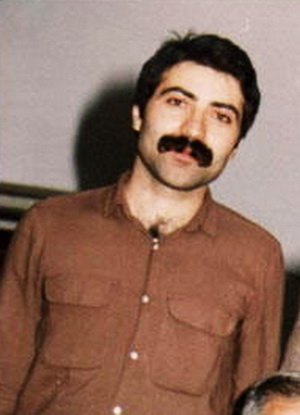 Jamshid Andalibi Iranian Musician. Nov 1984